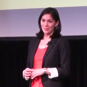 Samantha John is the chief technology officer and co-founder of Hopscotch, a mobile app to make & share mobile games.